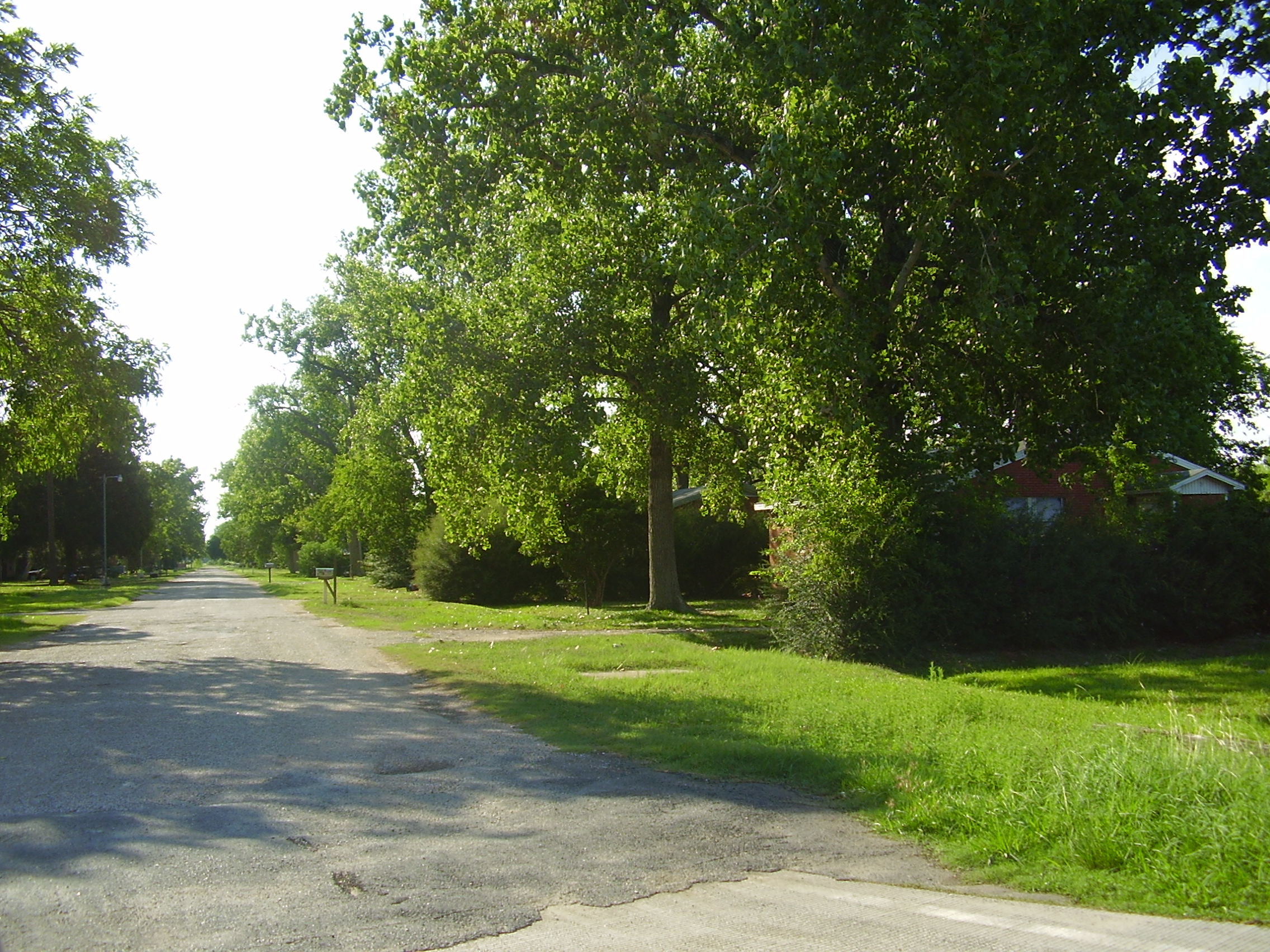 Smithville, an area of employee housing